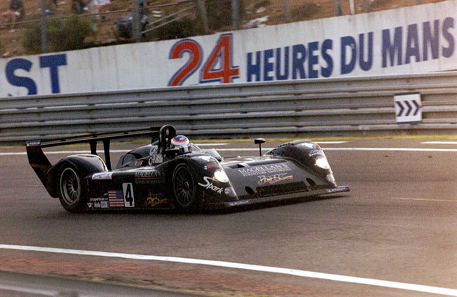 Riley & Scott Mk 111C,driven by Marc Goosens, Christophe Tinseau & Jim Matthews at the Esses during the 2003 24 Hours of Le Mans.